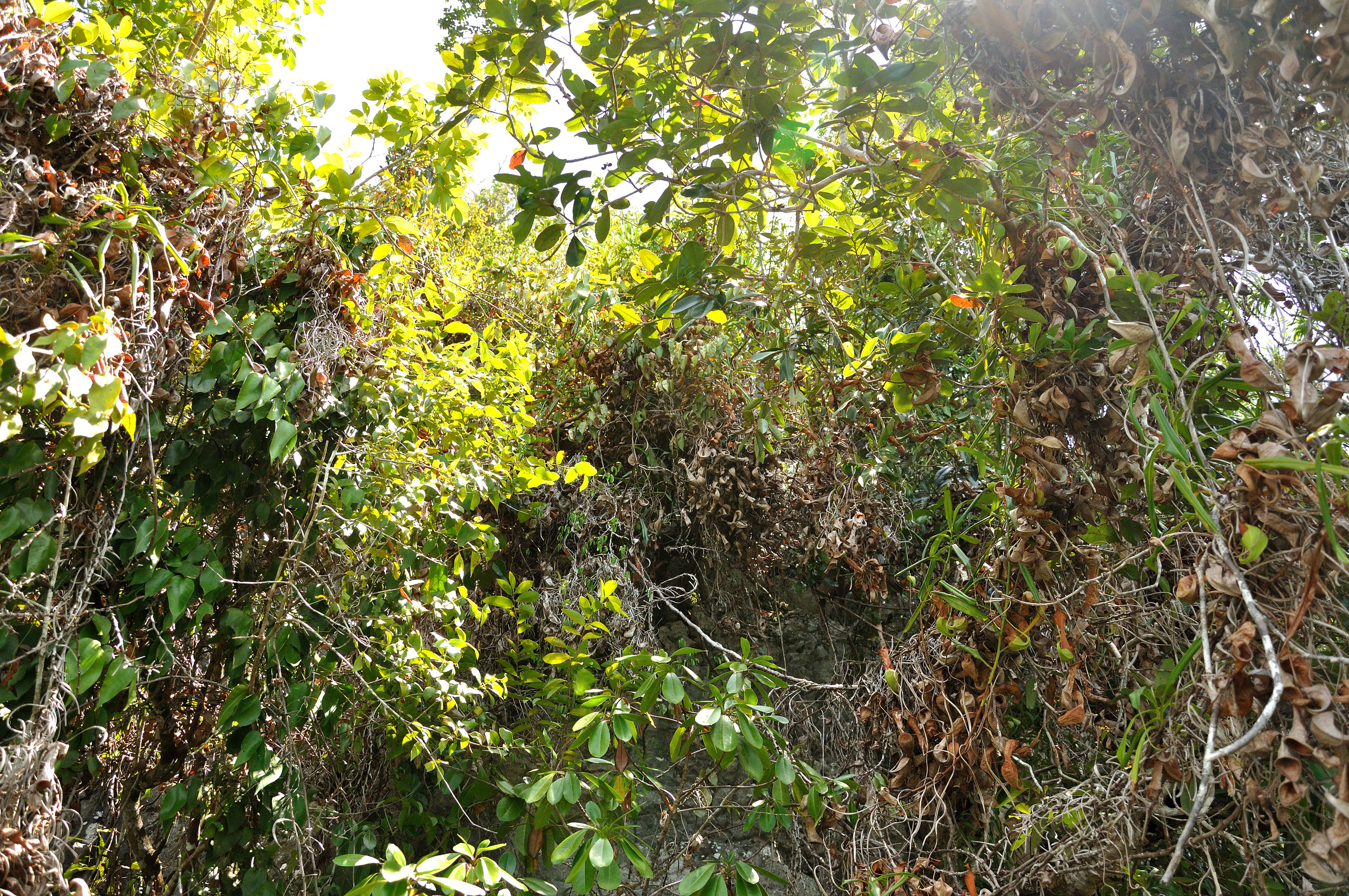 Nepenthes viridis habitat, photographed on an islet off Dinagat, Philippines